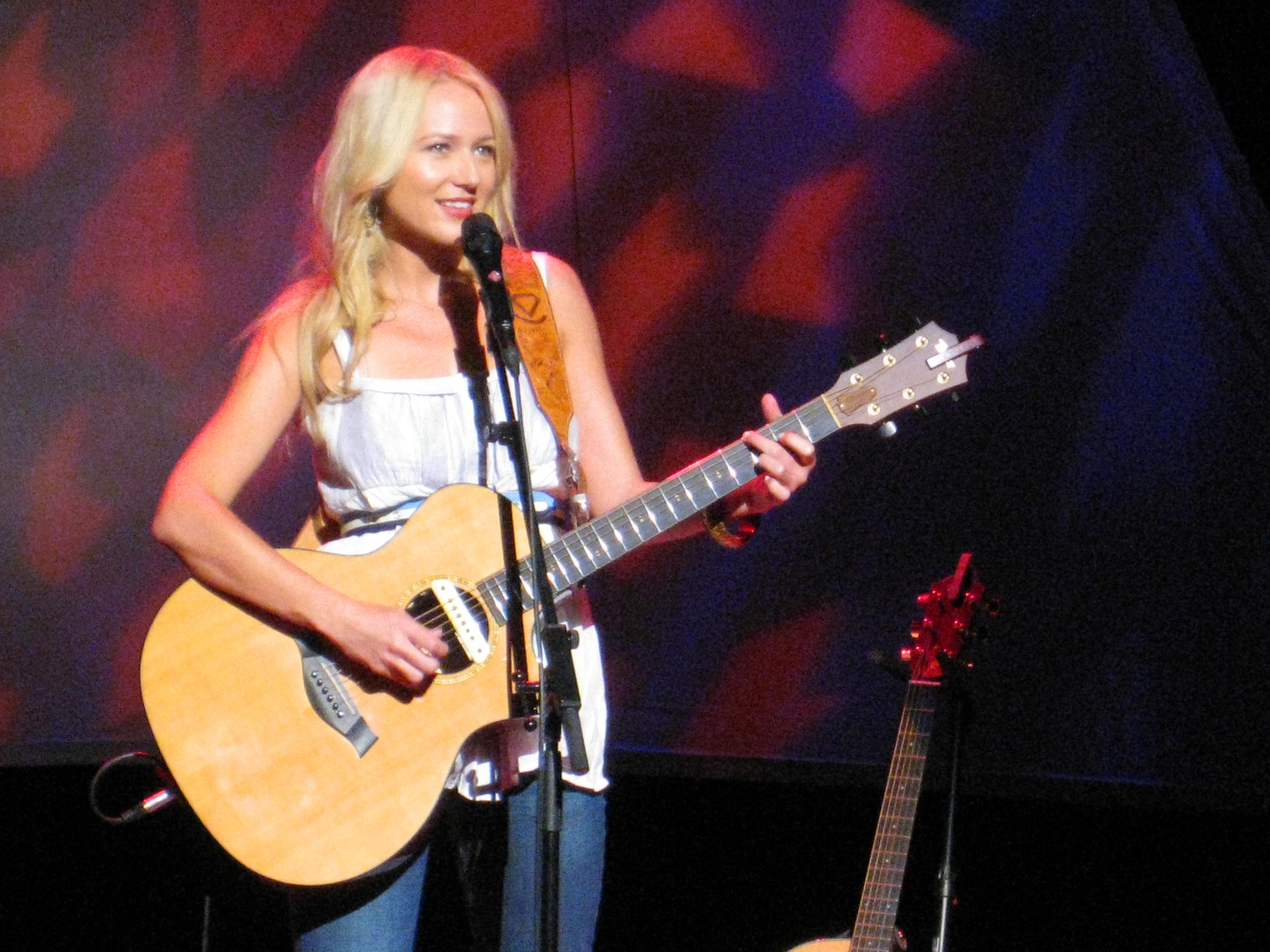 Jewel Kilcher performing at The Theatre in Coquitlam, British Columbia